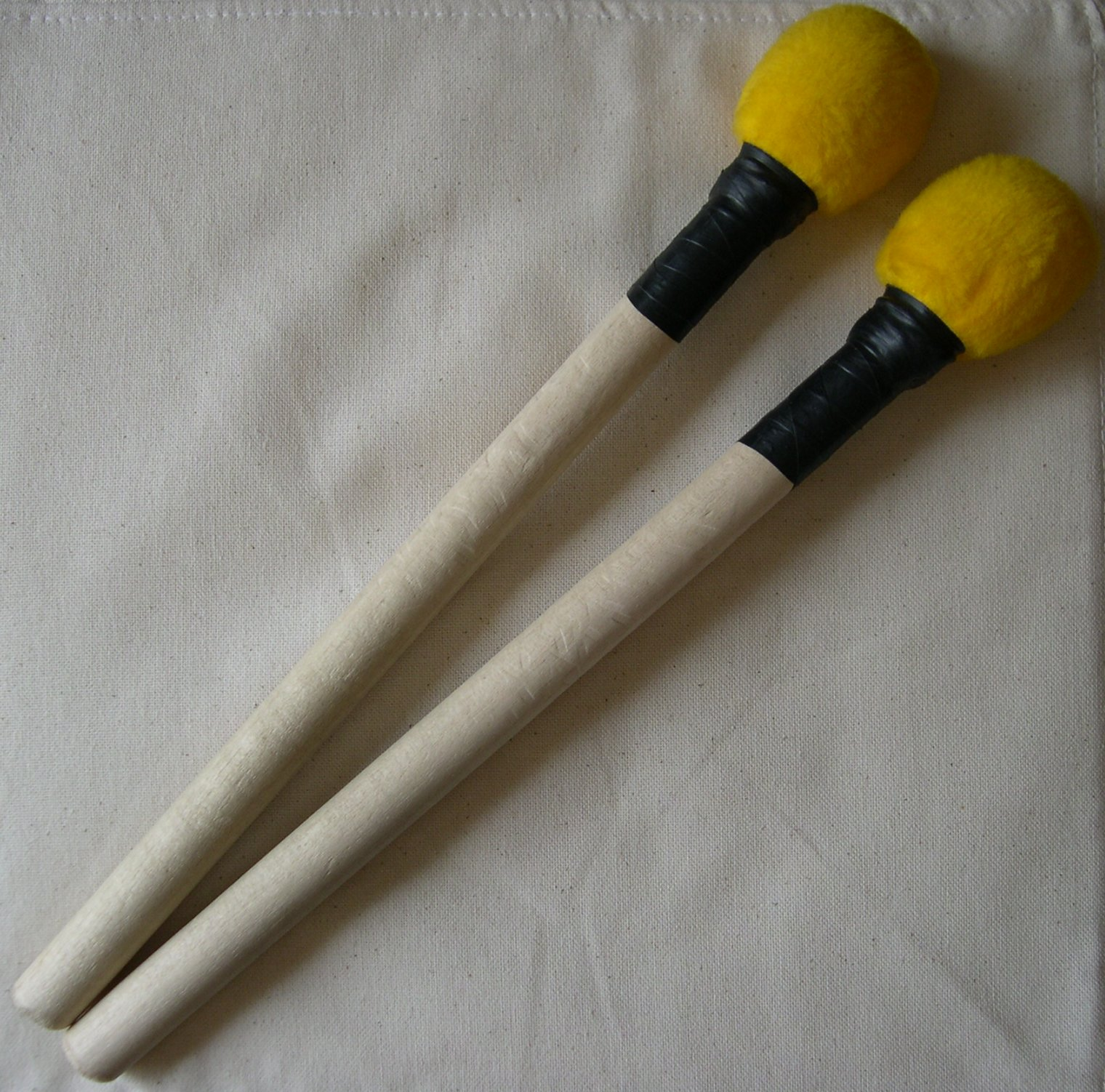 Surdo beaters.